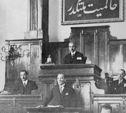 Mustafa Kemal Atatürk at the parliament presenting his Nutuk.